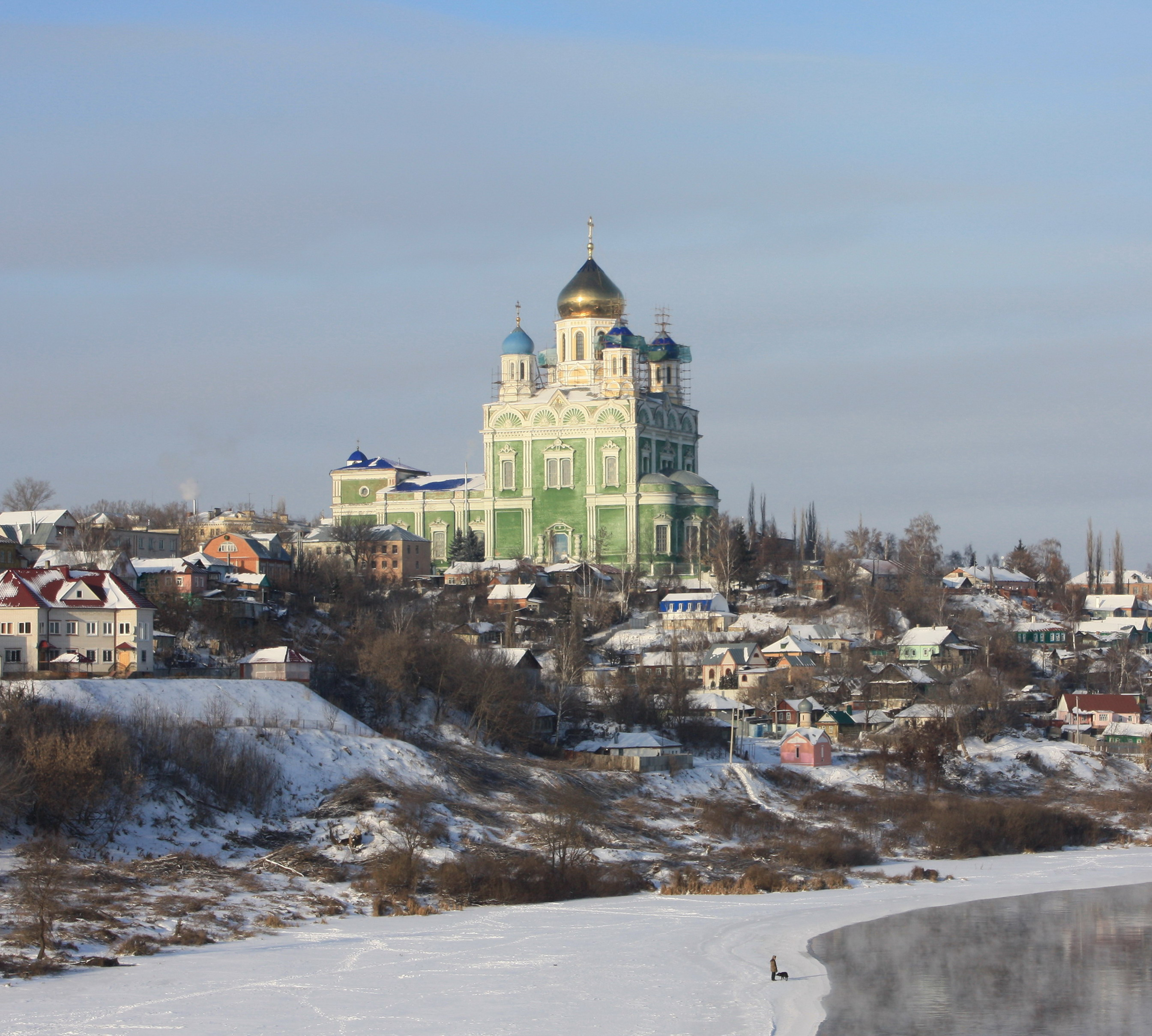 view of Ascension Cathedral in Yelets, Russia